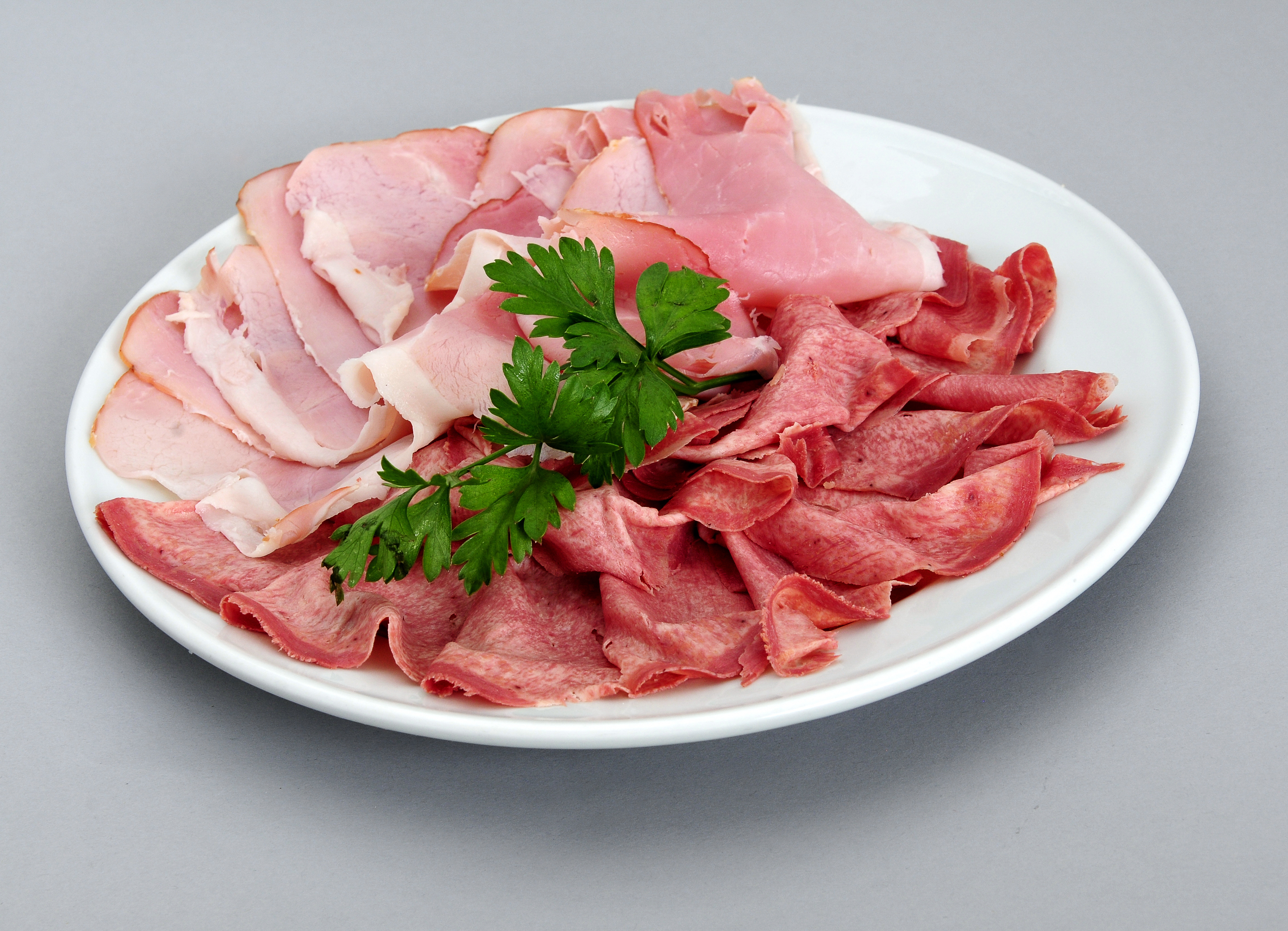 ham and tongue